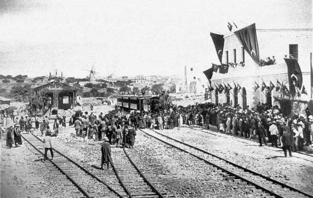 First Train in the Railwaystation of Jerusalem 1892.